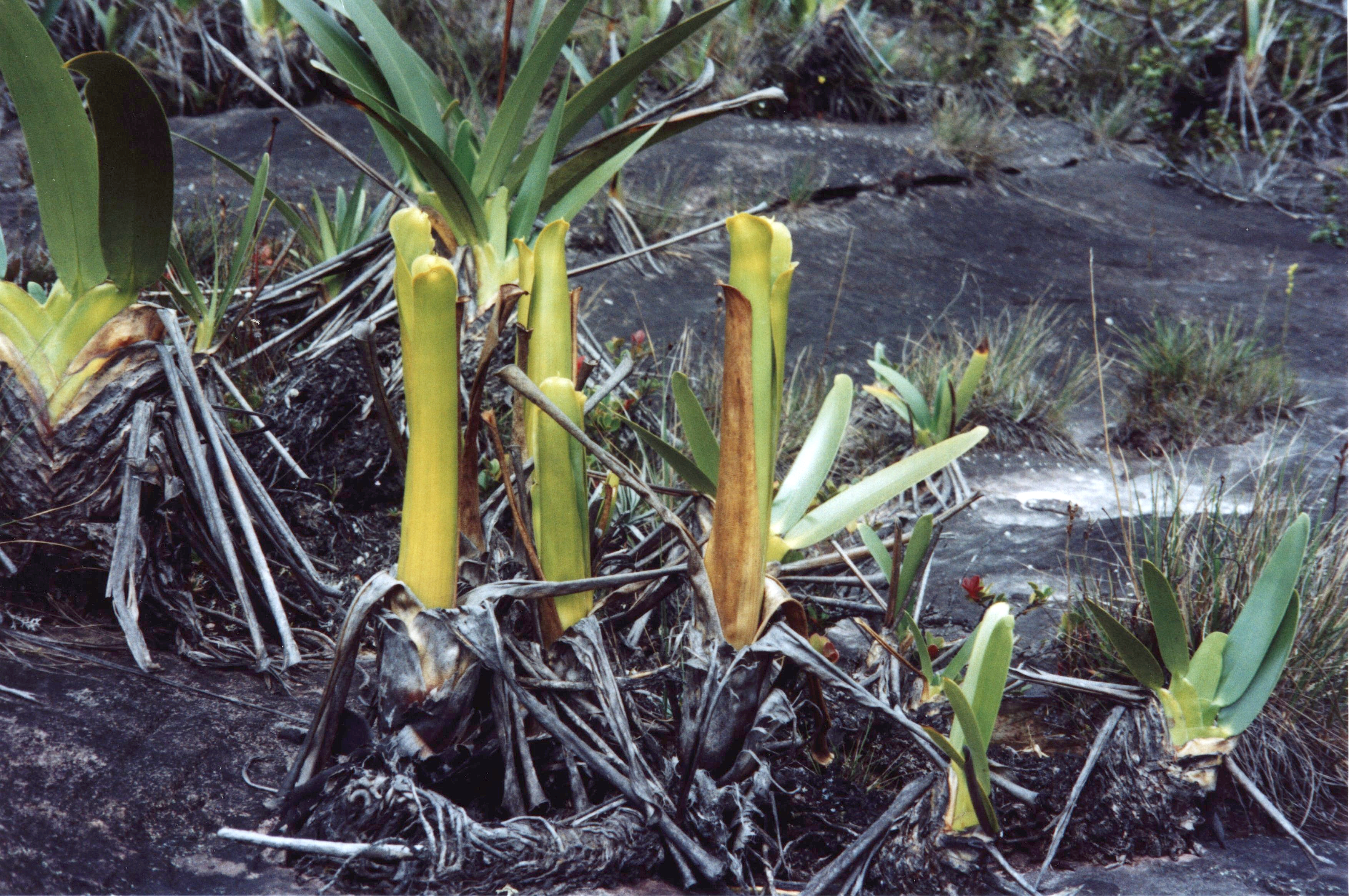 Brocchinia sp. on Roraima-Tepui, Venezuela (edited by uploader)